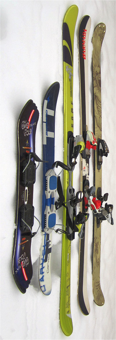 Twintip skis from back to front: freeride ski (K2 Maid'N'AK 2007), park/halfpipe ski (Armada T-Hall 2007), park/halfpipe ski (Salomon Teneighty 2004), skiboards (Blizzard Carvelino TT, Kneissl Bigfoot Trick)